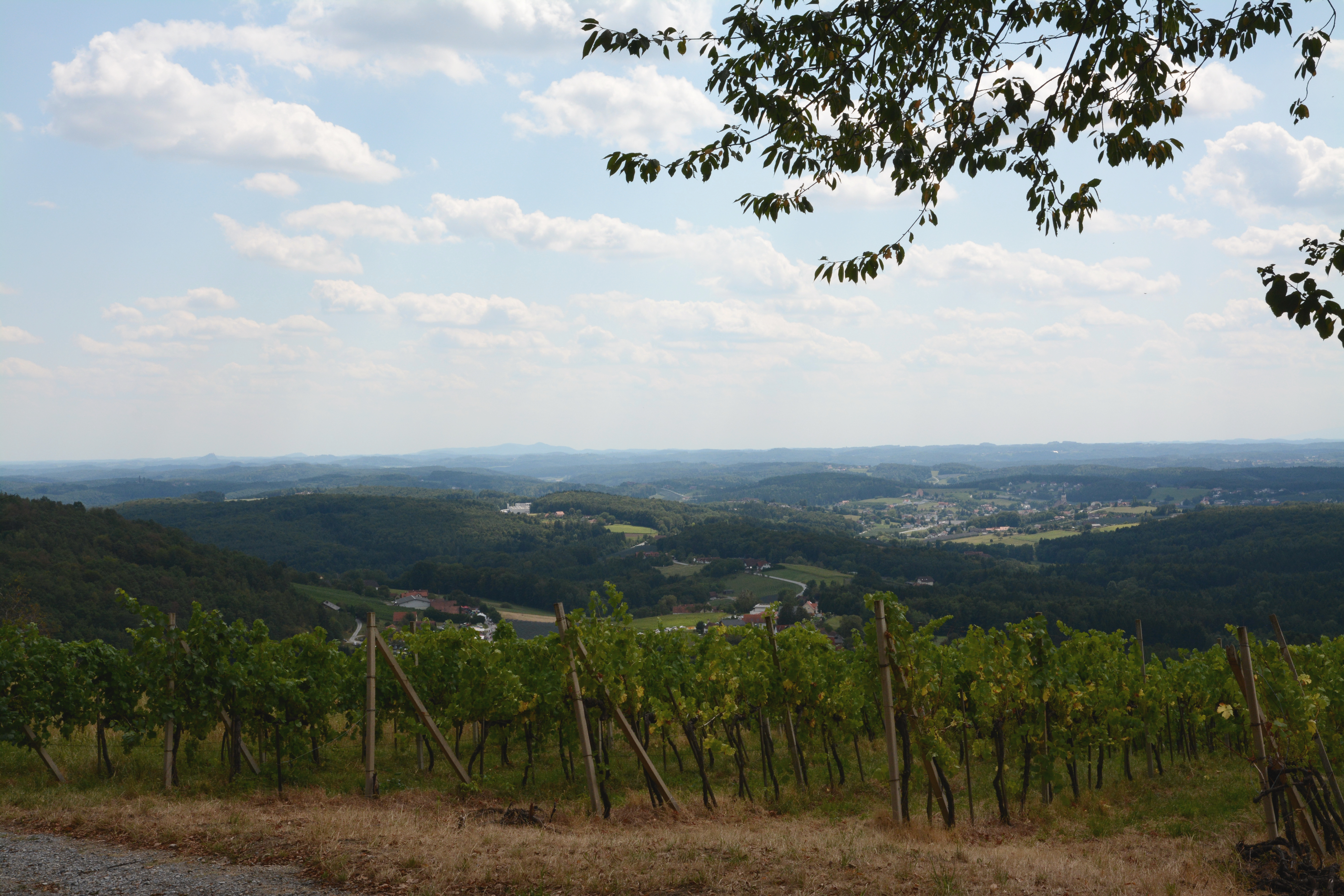 Siegersdorf bei Herberstein